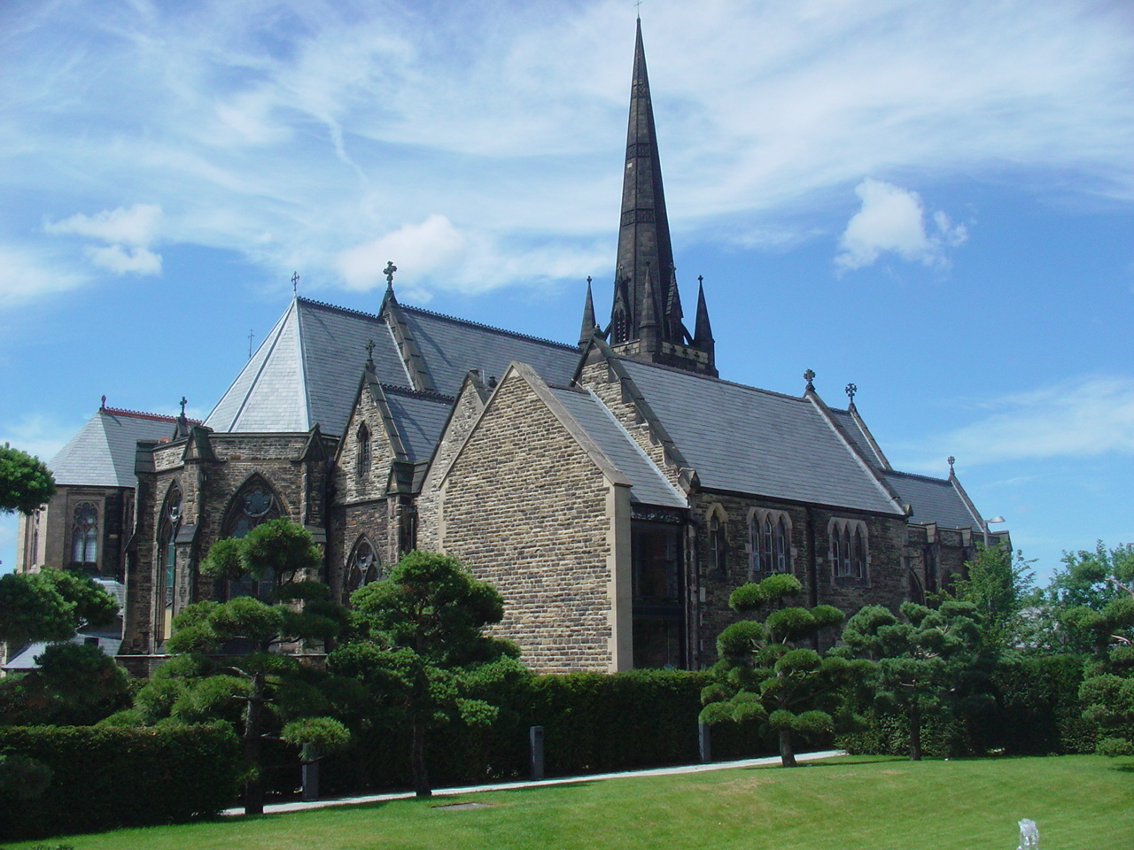 Church of Saint Francis Xavier, Liverpool as seen from the Angel Field Renaissance Garden.